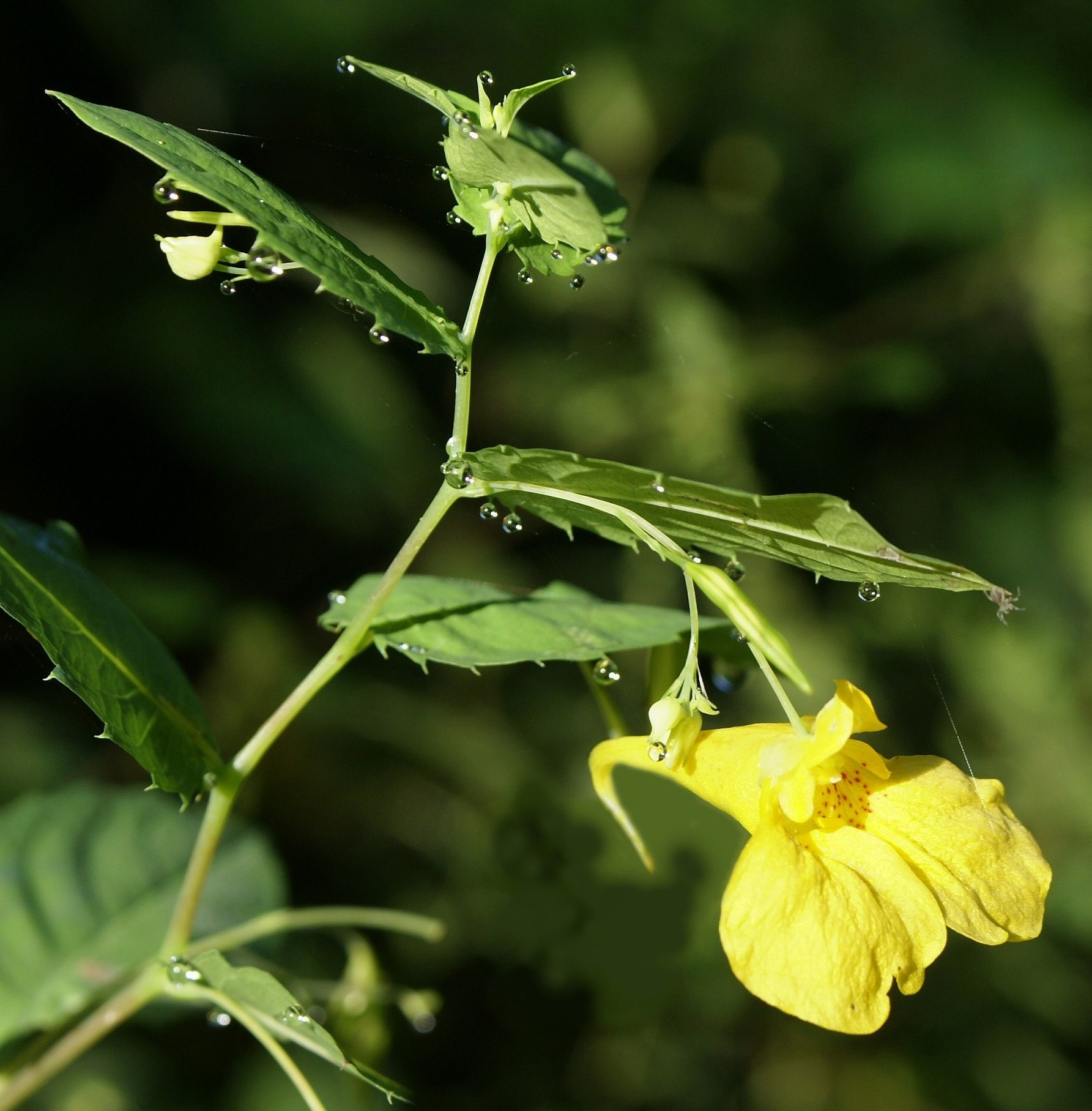 The right spring of the River Kahl is a sunny place. Here, the plant Touch-me-not Balsam (Impatiens noli-tangere) is present in large numbers